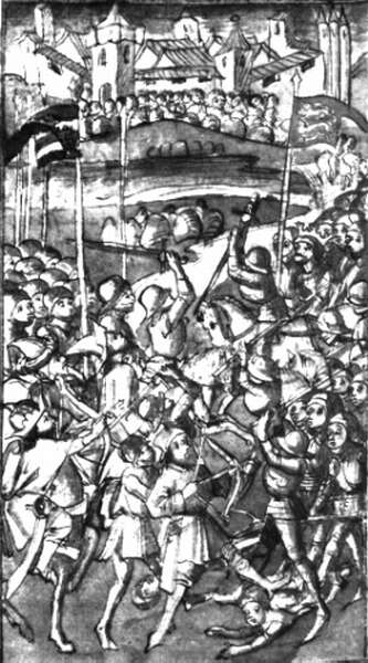 The battle of Augsburg, 955